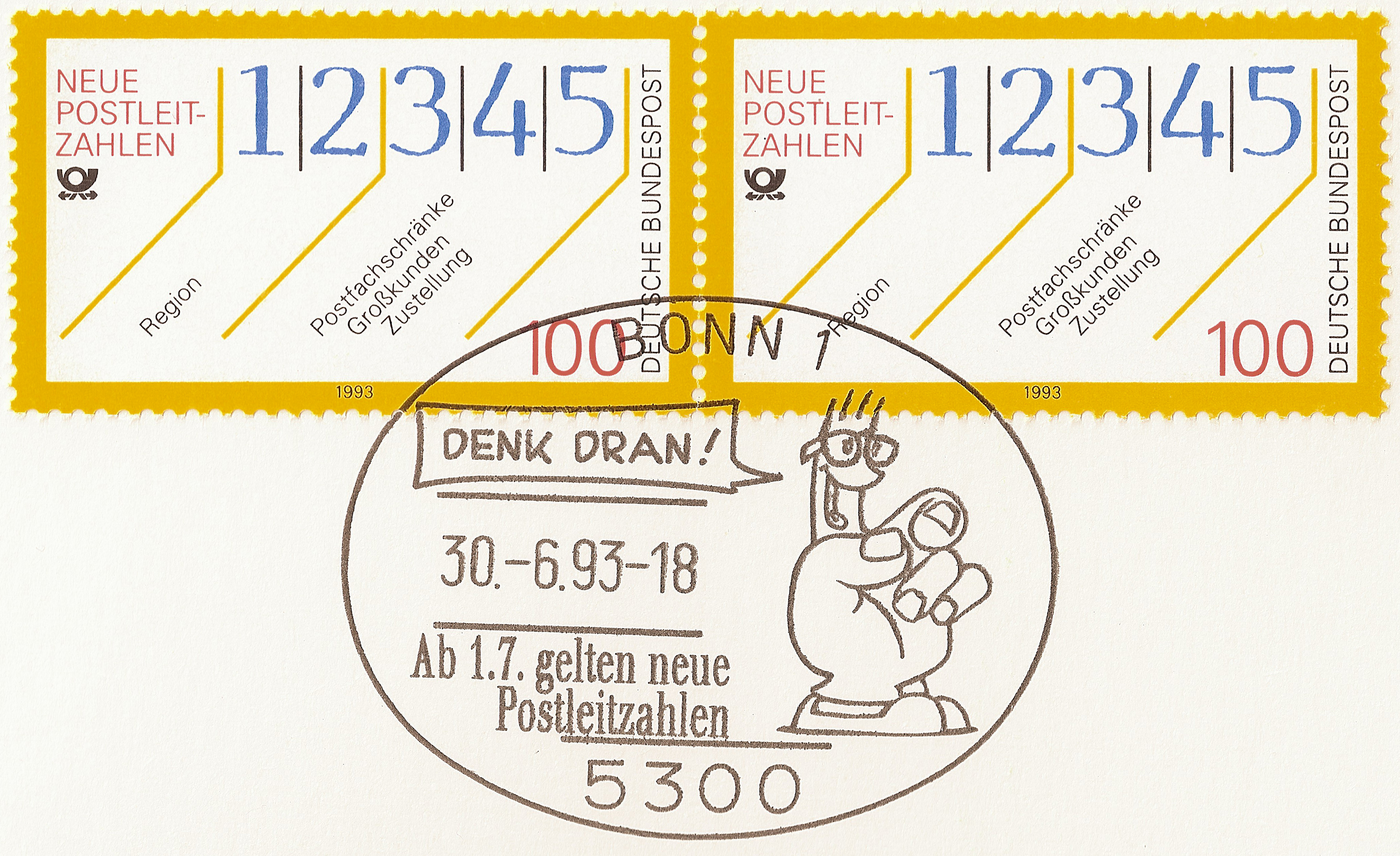 Stamp of Deutsche Post AG - new Postal codes in Germany 1993